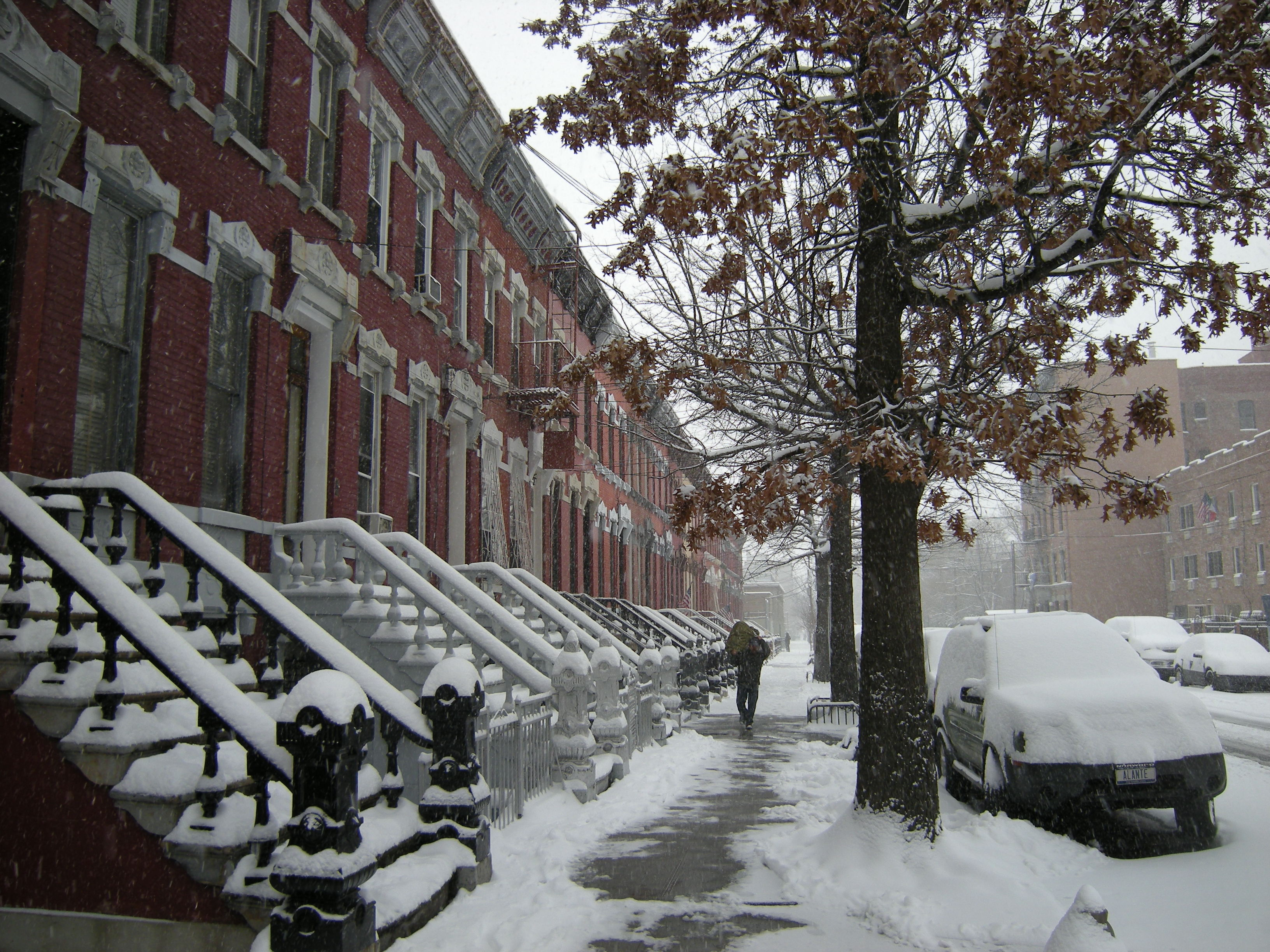 East 139th Street, Bronx NY, Between Willis and Brook Avenue's, facing east.